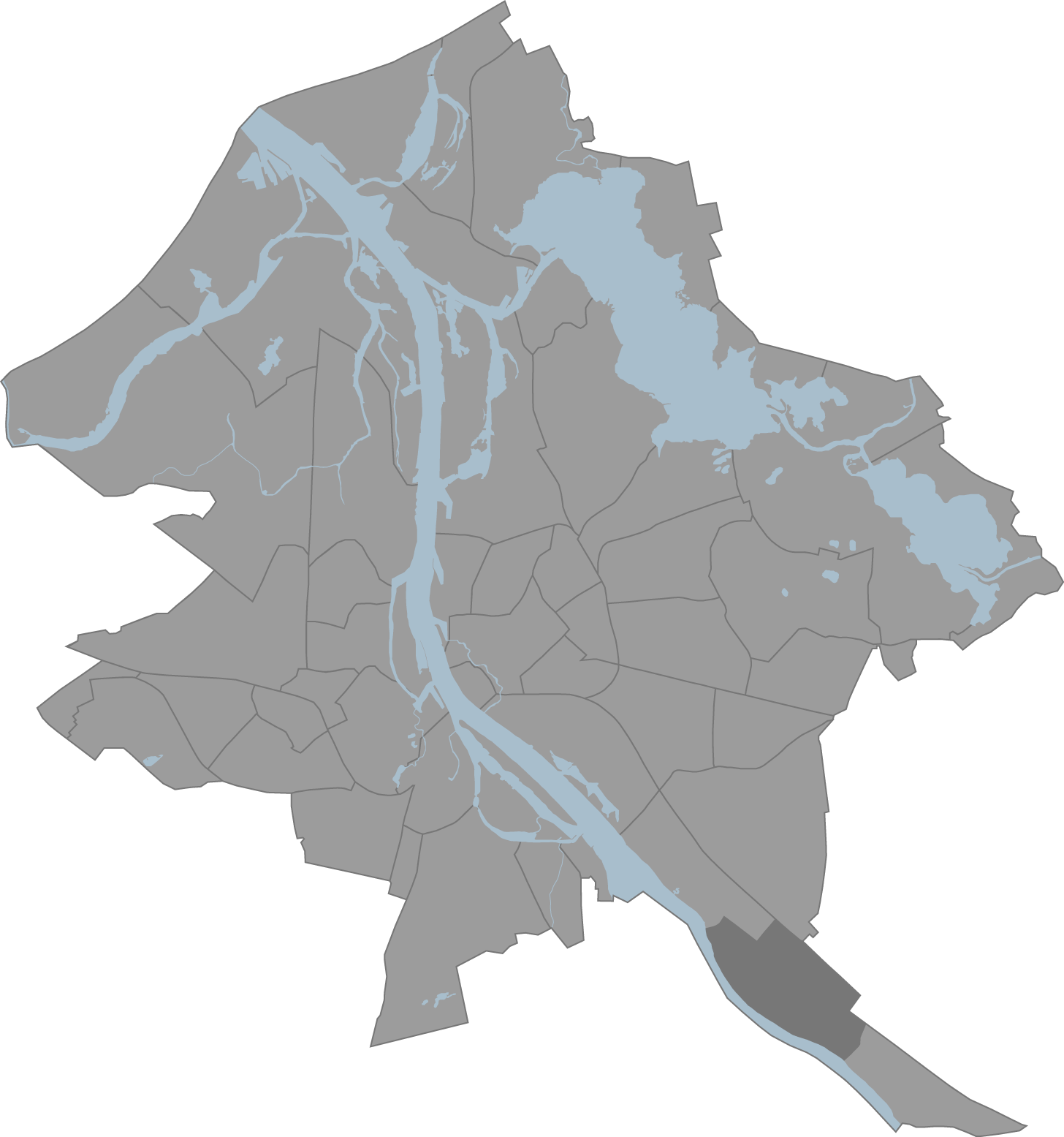 A map of Riga, Latvia with the eponymous commune highlighted